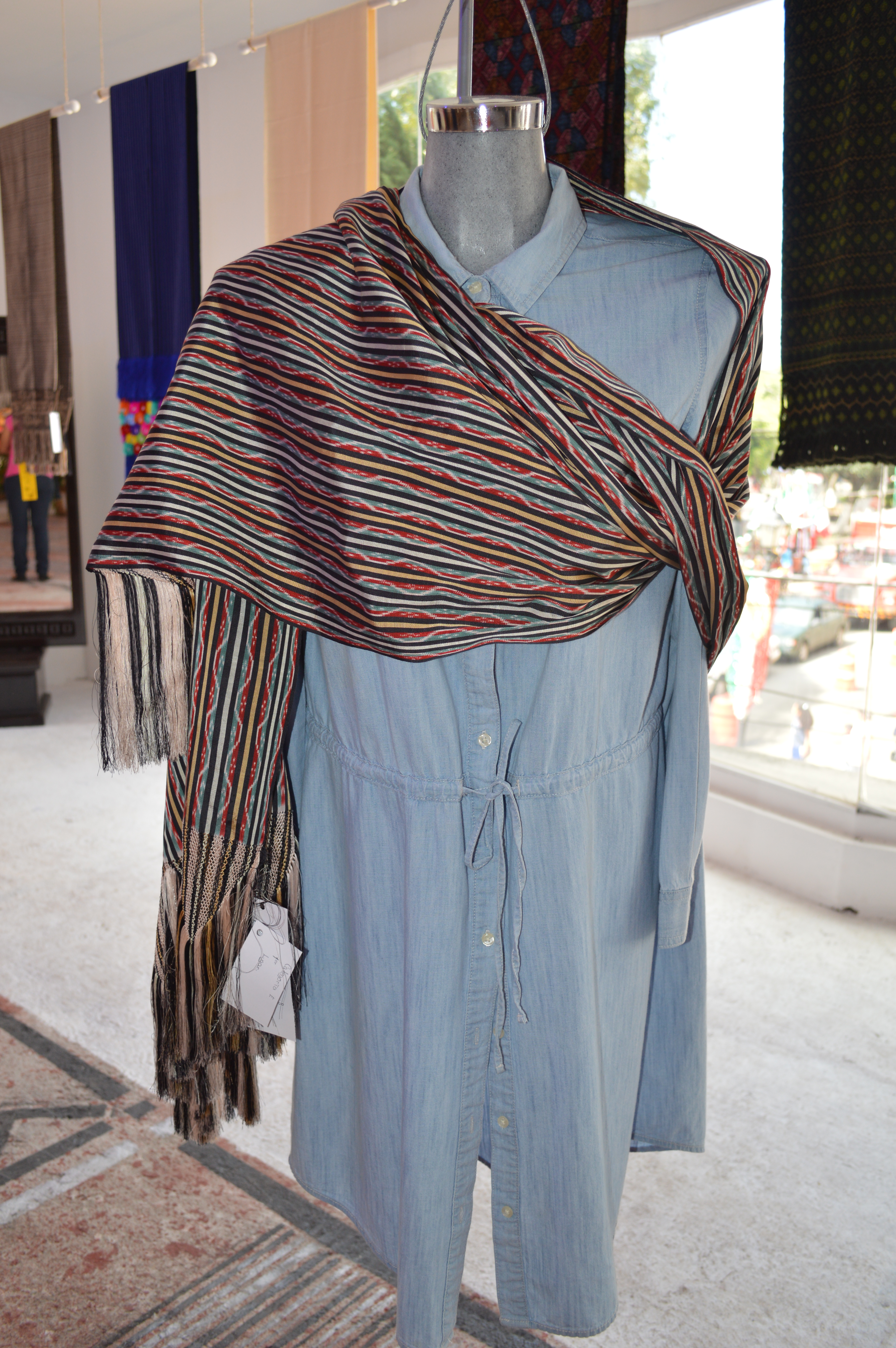 Silk rebozo by Blanca E. Barcenas Galarza of Santa María del Rio, San Luis Potosi, Mexico at the Feria de Rebozo in Tenancingo, Mexico State, Mexico